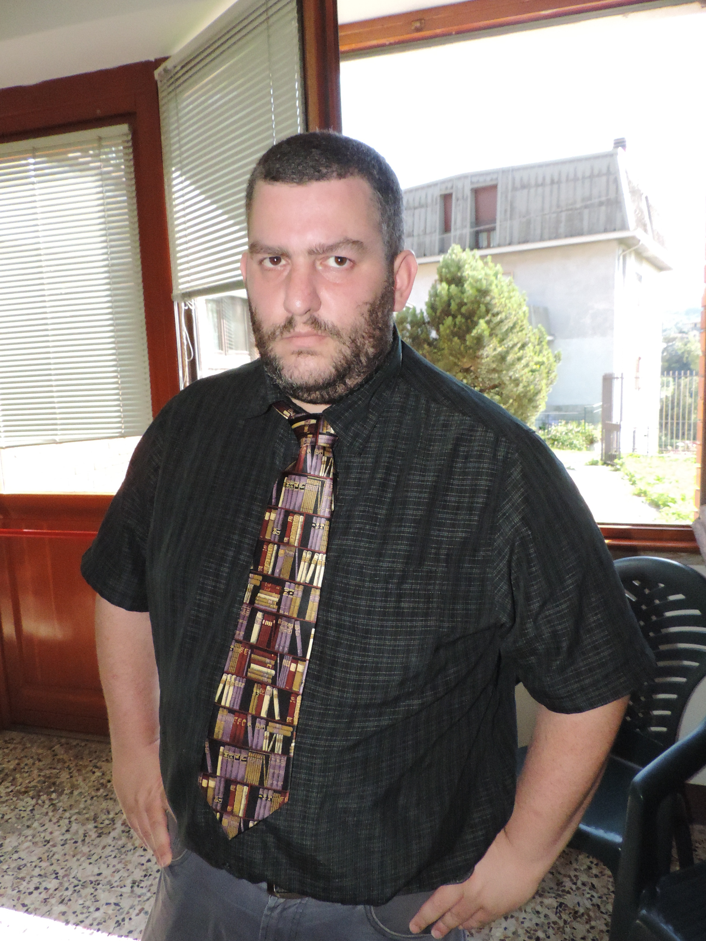 Asaf with his official Wikidojo accessory ;)